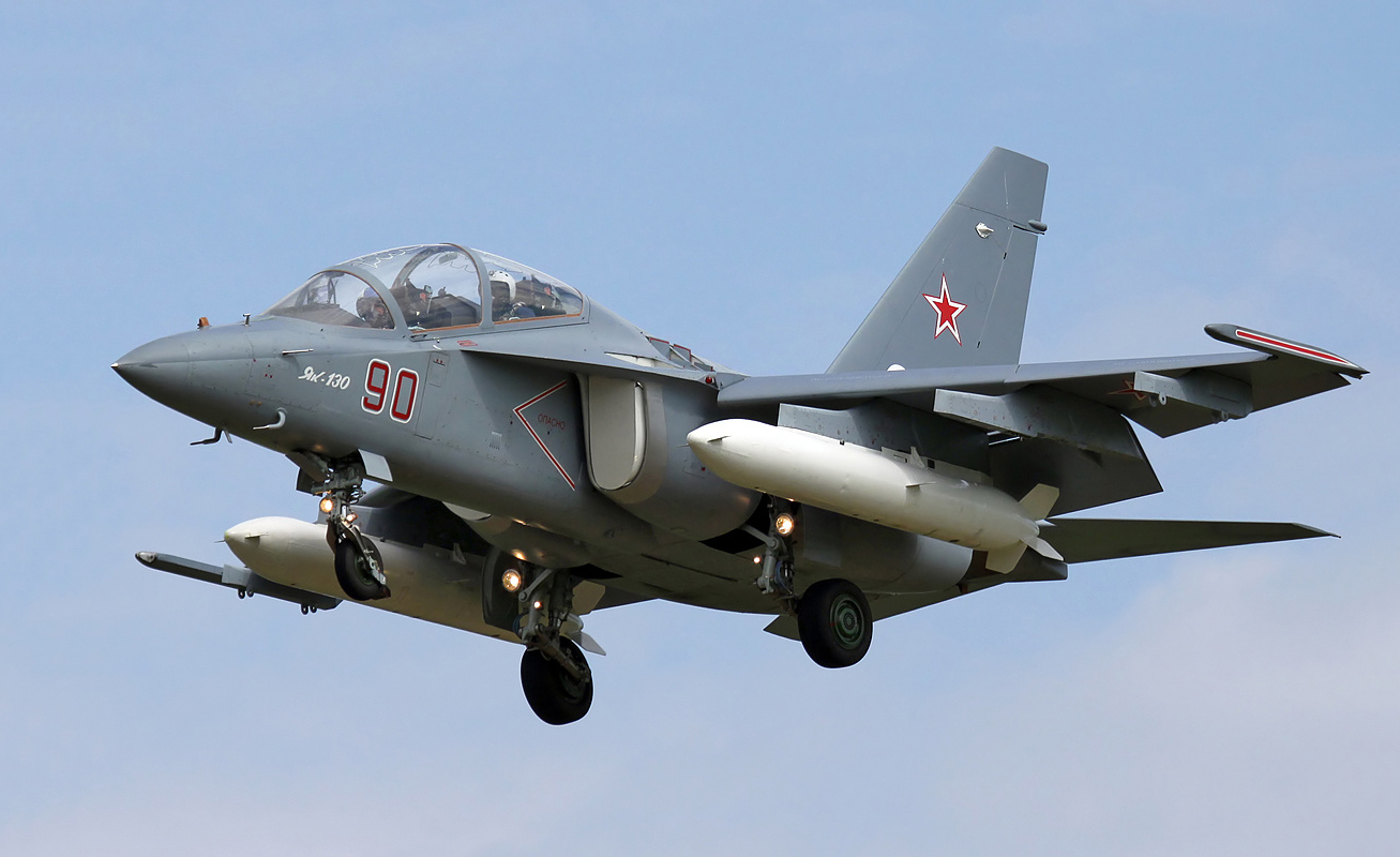 Yakovlev Yak-130 advanced jet trainer, Kubinka airbase